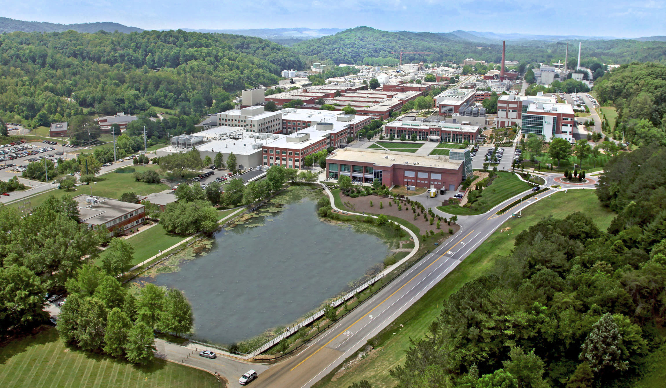 Aerial of the Oak Ridge National Laboratory (ORNL) in 2012. ORNL has greatly expanded during the past decade and services as DOE’s largest multi-program laboratory.